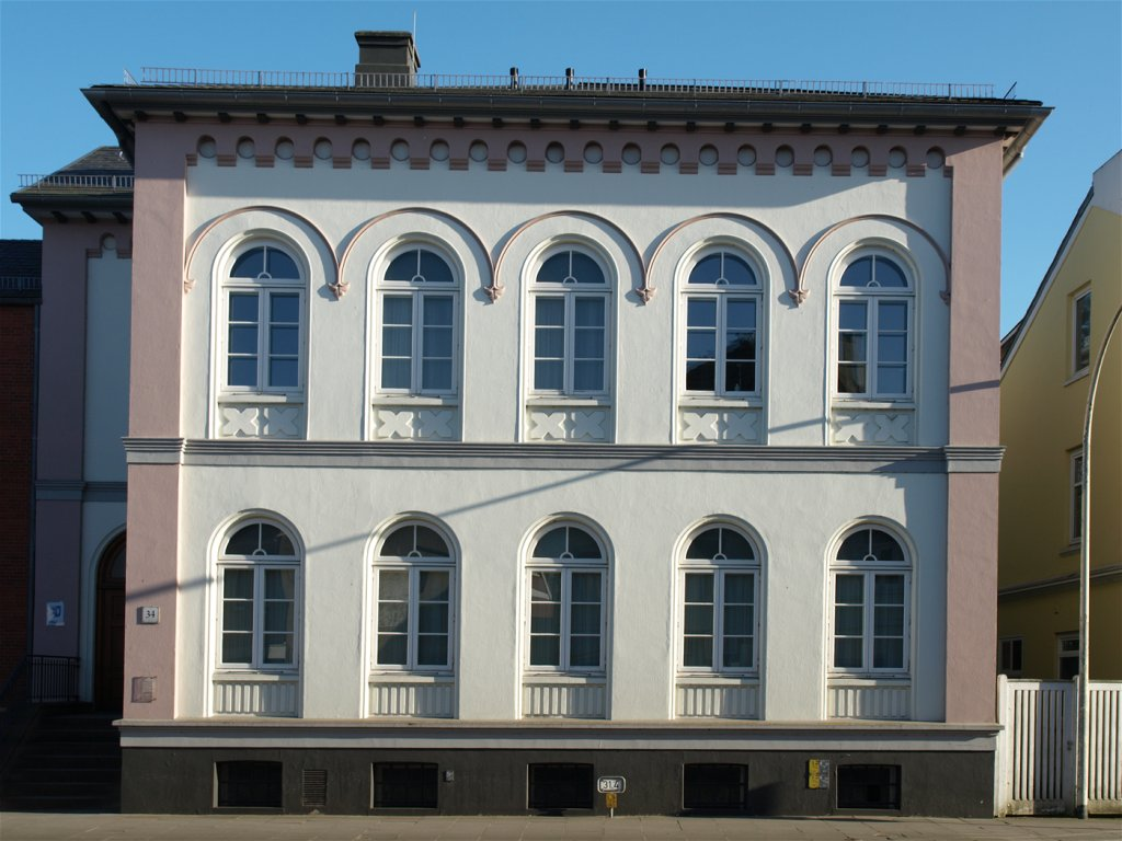 Uetersen (Germany),former County-Court , photo 2008